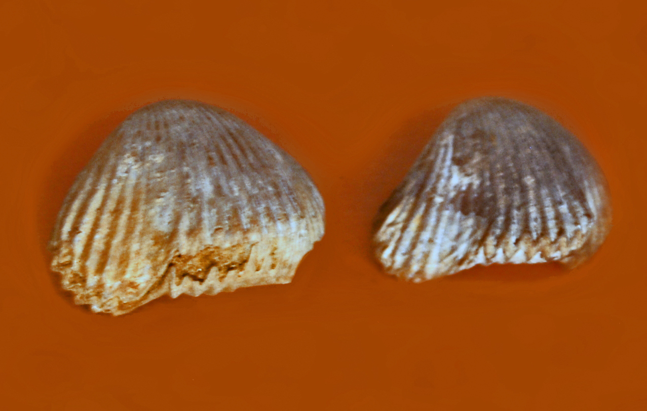 Fossil of Kallirhynchia major from France, on display at Gallery of Paleontology and Comparative Anatomy, Paris.